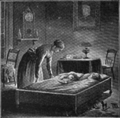 "And thinks of the two on the low trundle-bed."; illustration for "All Quiet Along the Potomac To-night" by Lamar Fontaine, Second Virginia Cavalry. p. 524.